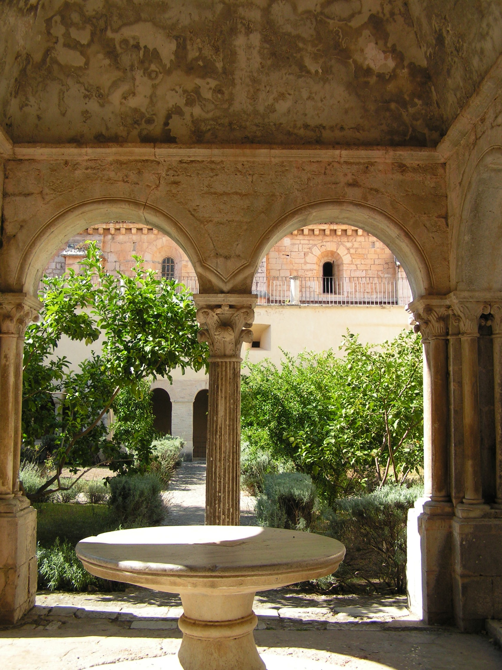 The Fossanova Abbey in Priverno in the Province of Rome